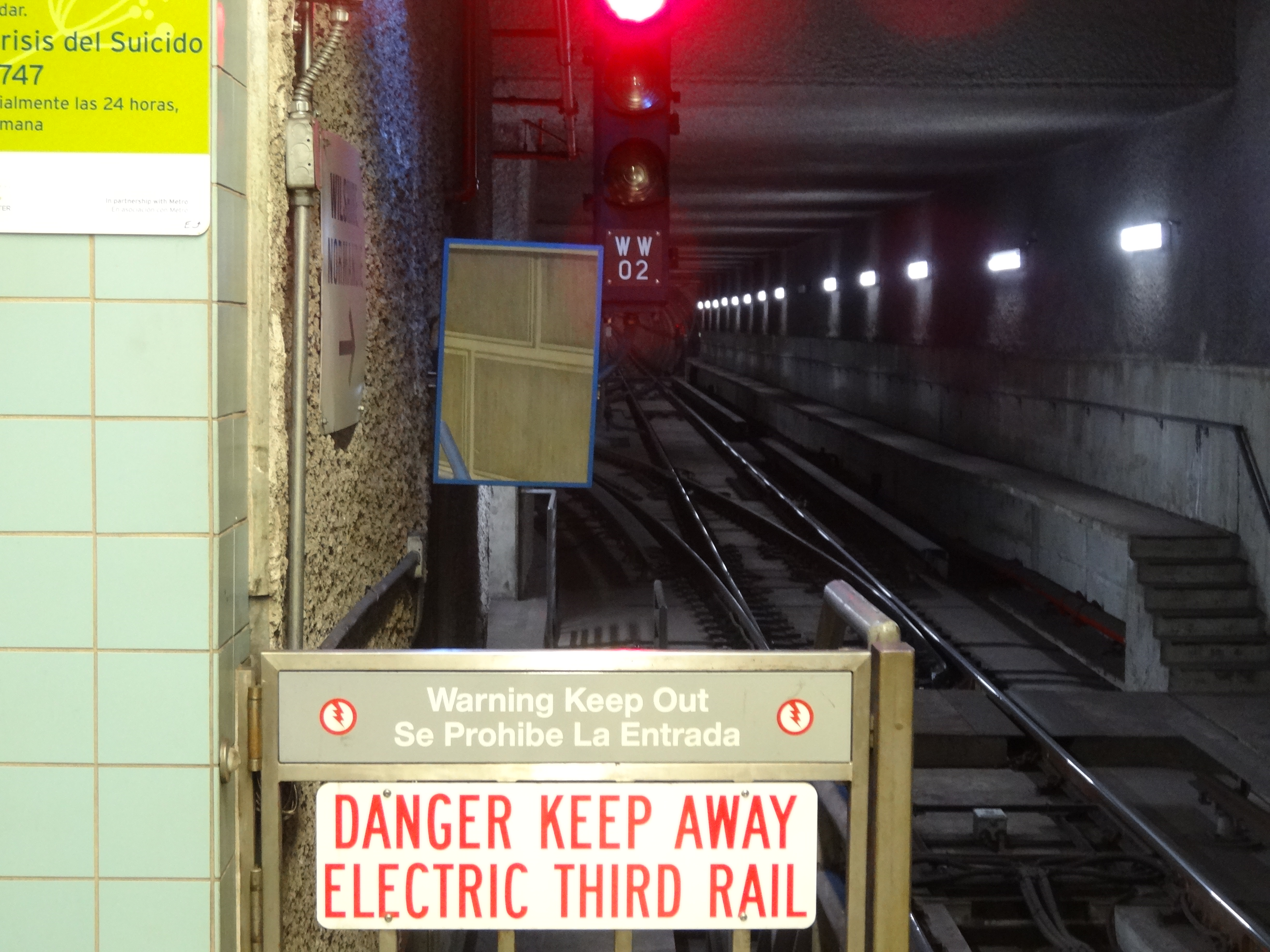 The crossover at the inbound end of the platform at Wilshire/Western station on the Los Angeles Metro